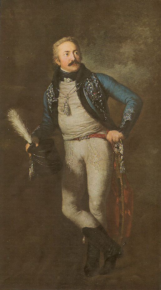 Portrait Johann Adolf Freiherr von Thielmann